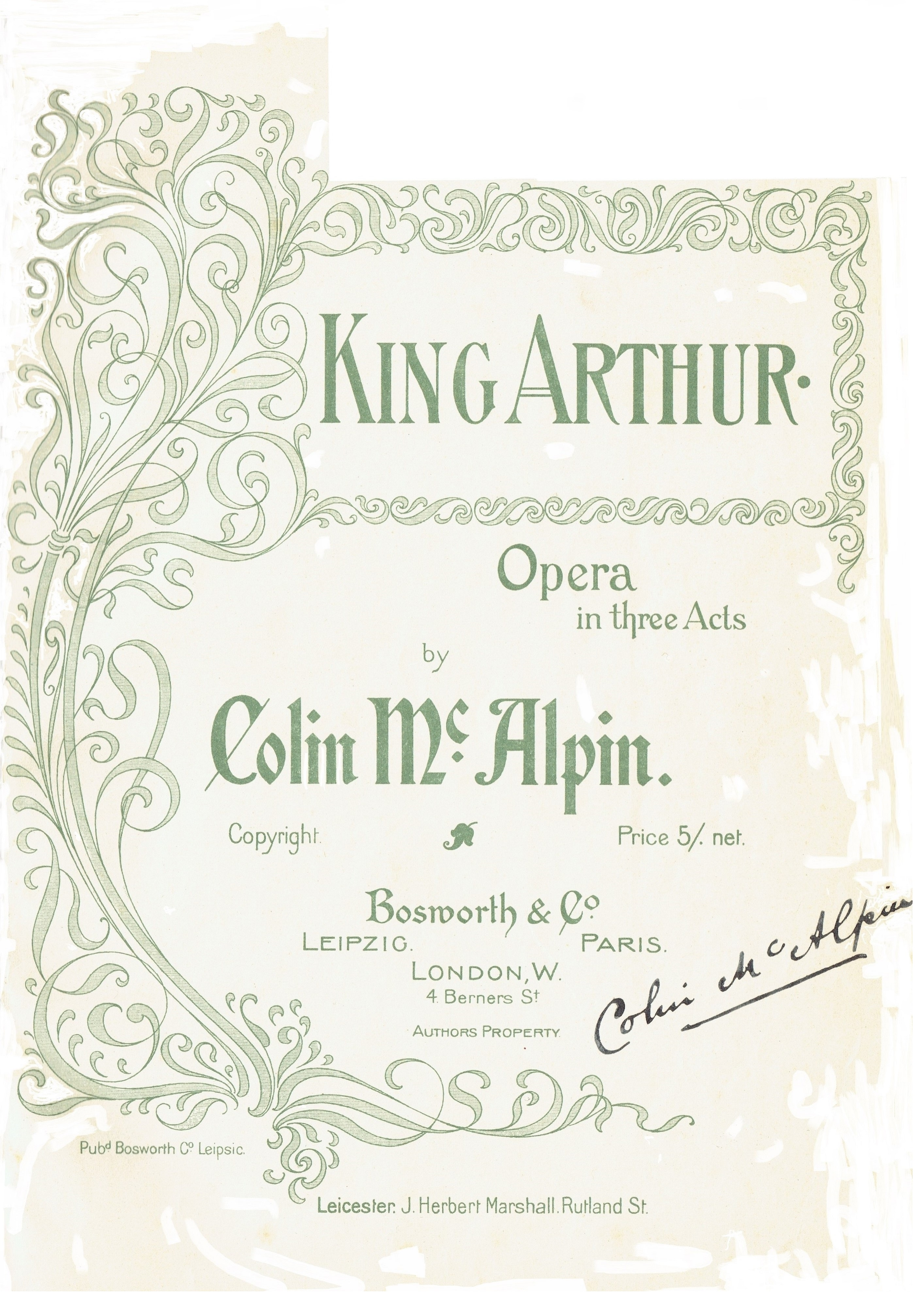 Title page of the vocal score of the opera "King Arthur" by Colin McAlpin.